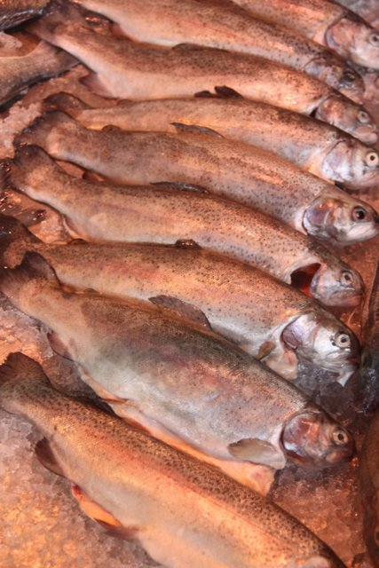 Rainbow trouts in ijs